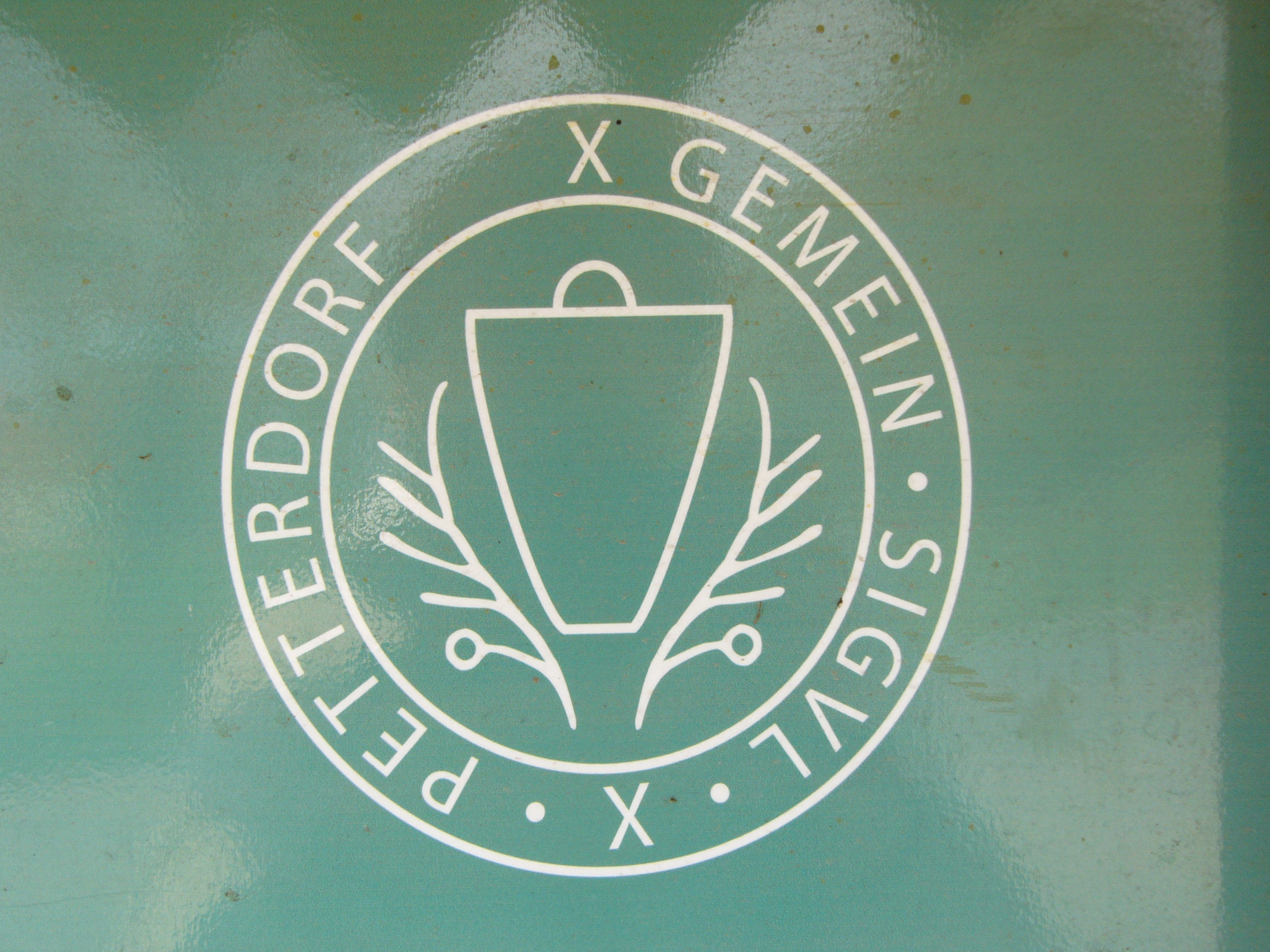 Seal of Hraničné Petrovice village (Czech Republic)..